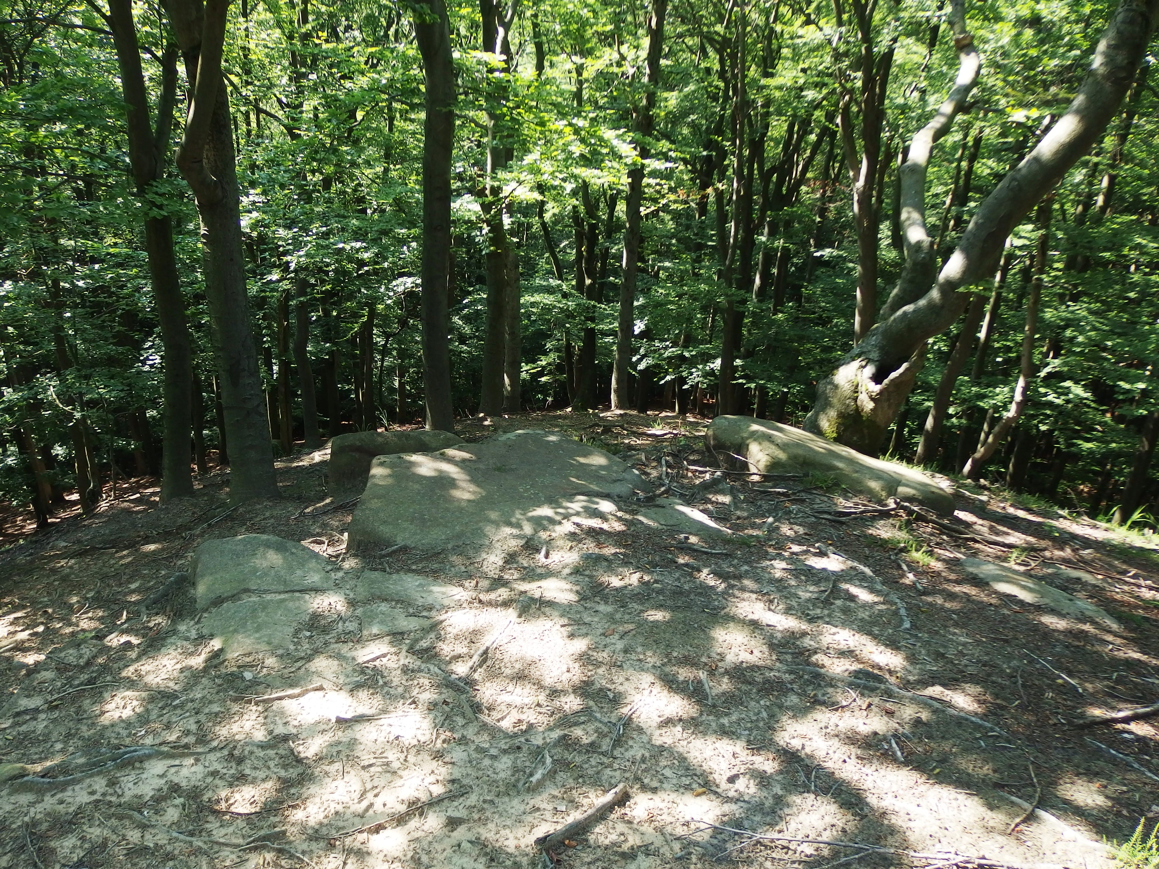 Salaš, Uherské Hradiště District, Czechia. Smutný žleb nature reserve.